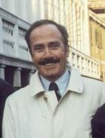 Massimo De Vita